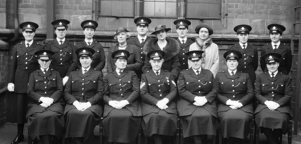 This week we are celebrating women in policing It wasn't until 1918 that female officers could join the force, and at this time they had to be 45-years-old. At this time in history, women officers did not receive personal protective equipment and did not have any powers of arrest. Female officers eventually gained the powers of arrest in 1933 and 80 years later female officers account for over 30 per cent of all officers, working in key roles across the force including command teams, the dogs unit, firearms and our response teams. If you have any photos of female friends or relatives working in policing you would be happy for us to share please send them in to or send them to us via Twitter @WMPolice